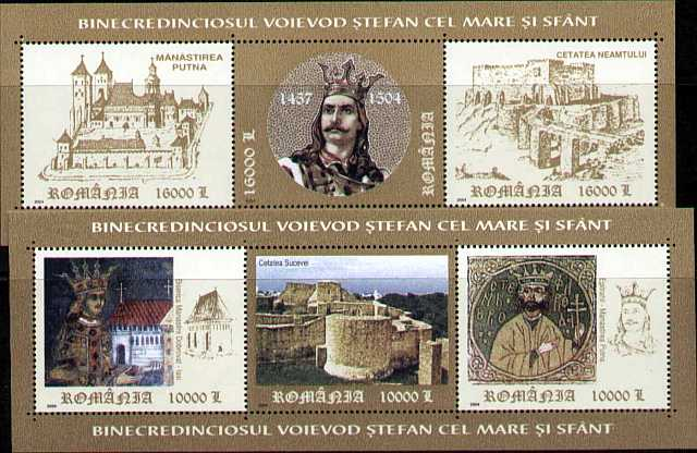 Stamp from Romania, issued to commemorate 500 years since the death of Stephen the Great, illustrating the Seat Fortress of Suceava (2004).